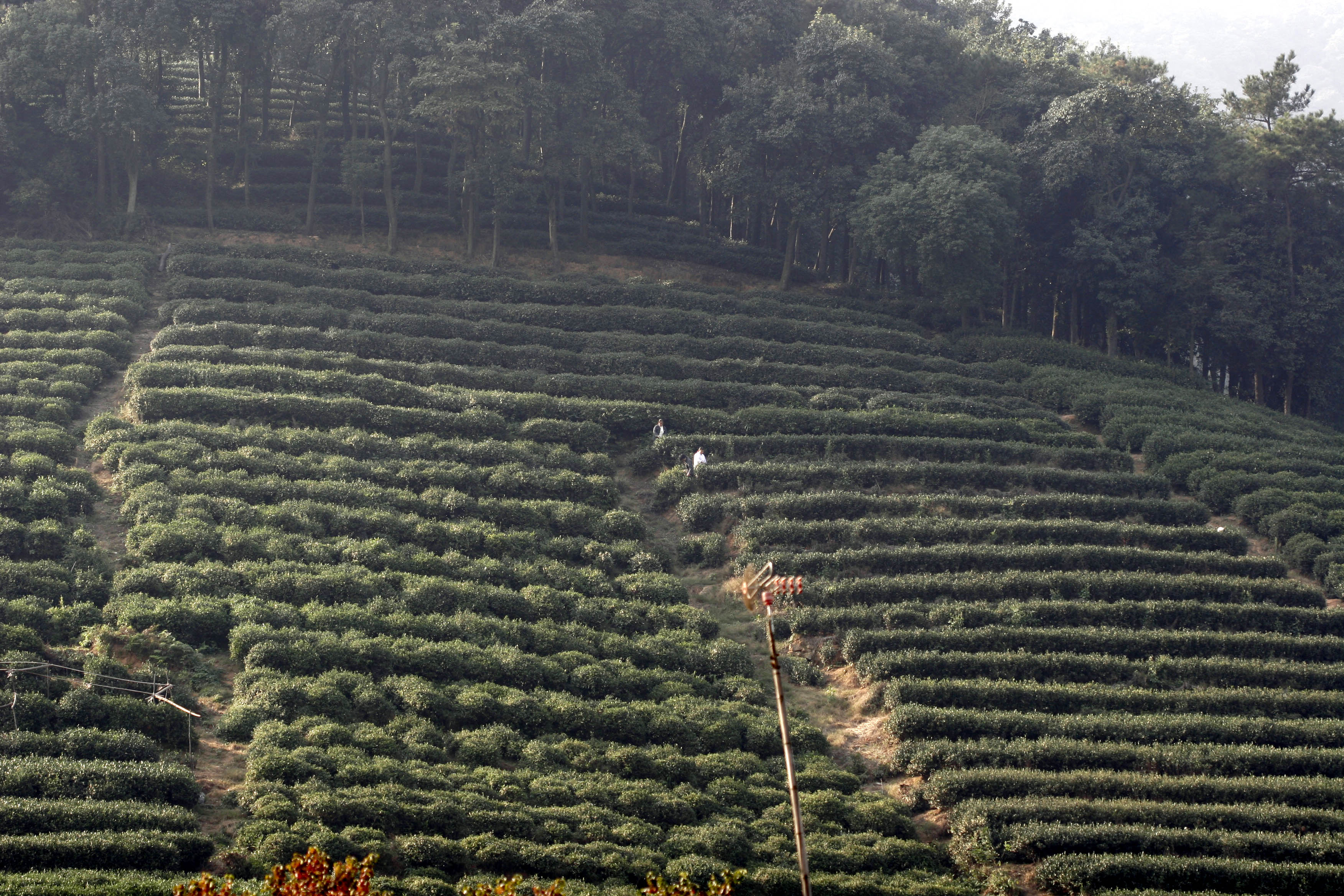 Tea bushes Camellia sinesis in Hangzhou (China, Province Zhejiang). Longjing (Dragon Well Tea)